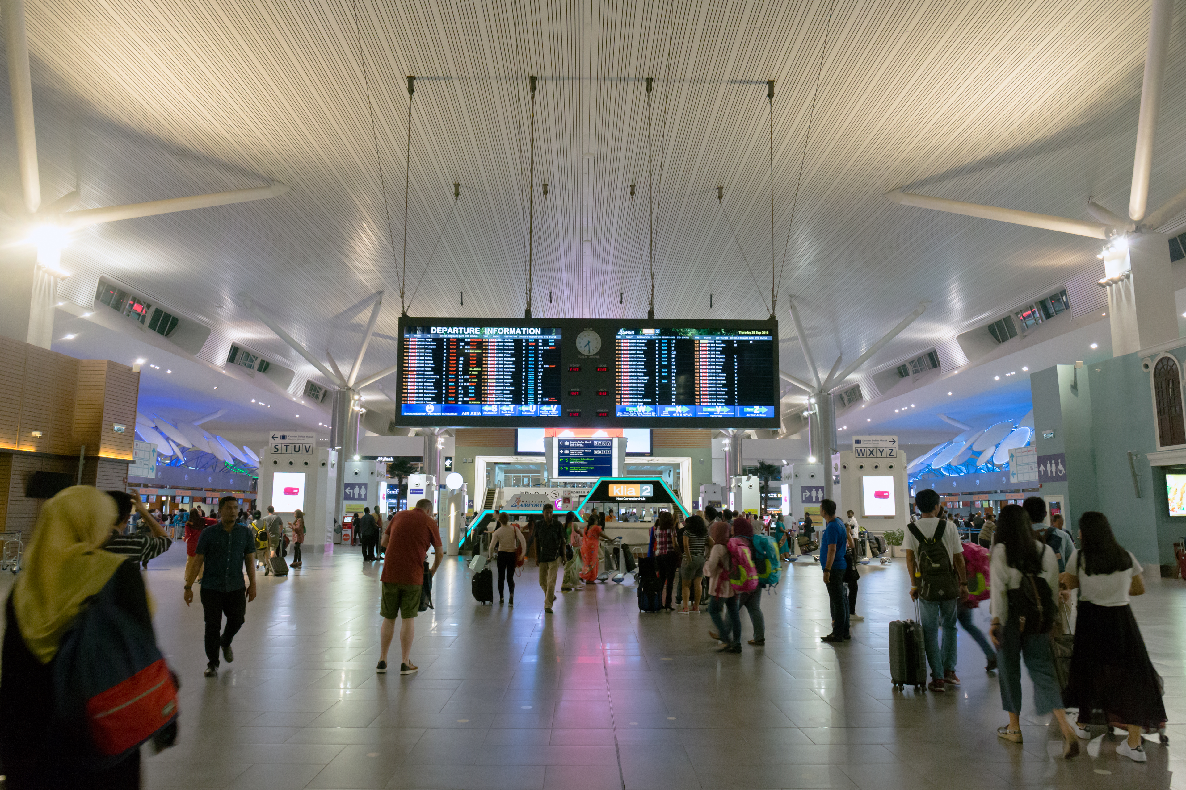 Kuala Lumpur International Airport departure hall